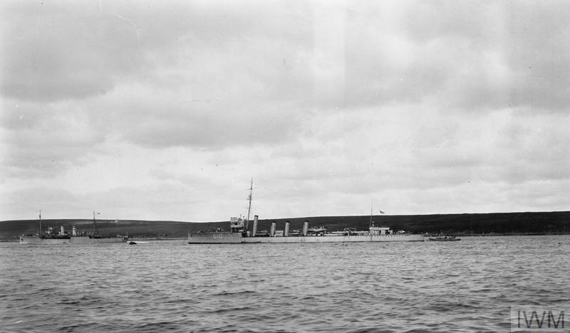 HMS Kempenfelt